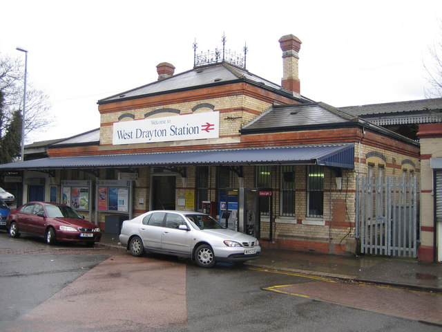 West Drayton railway station